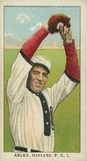 Major League Baseball player Harry Ables